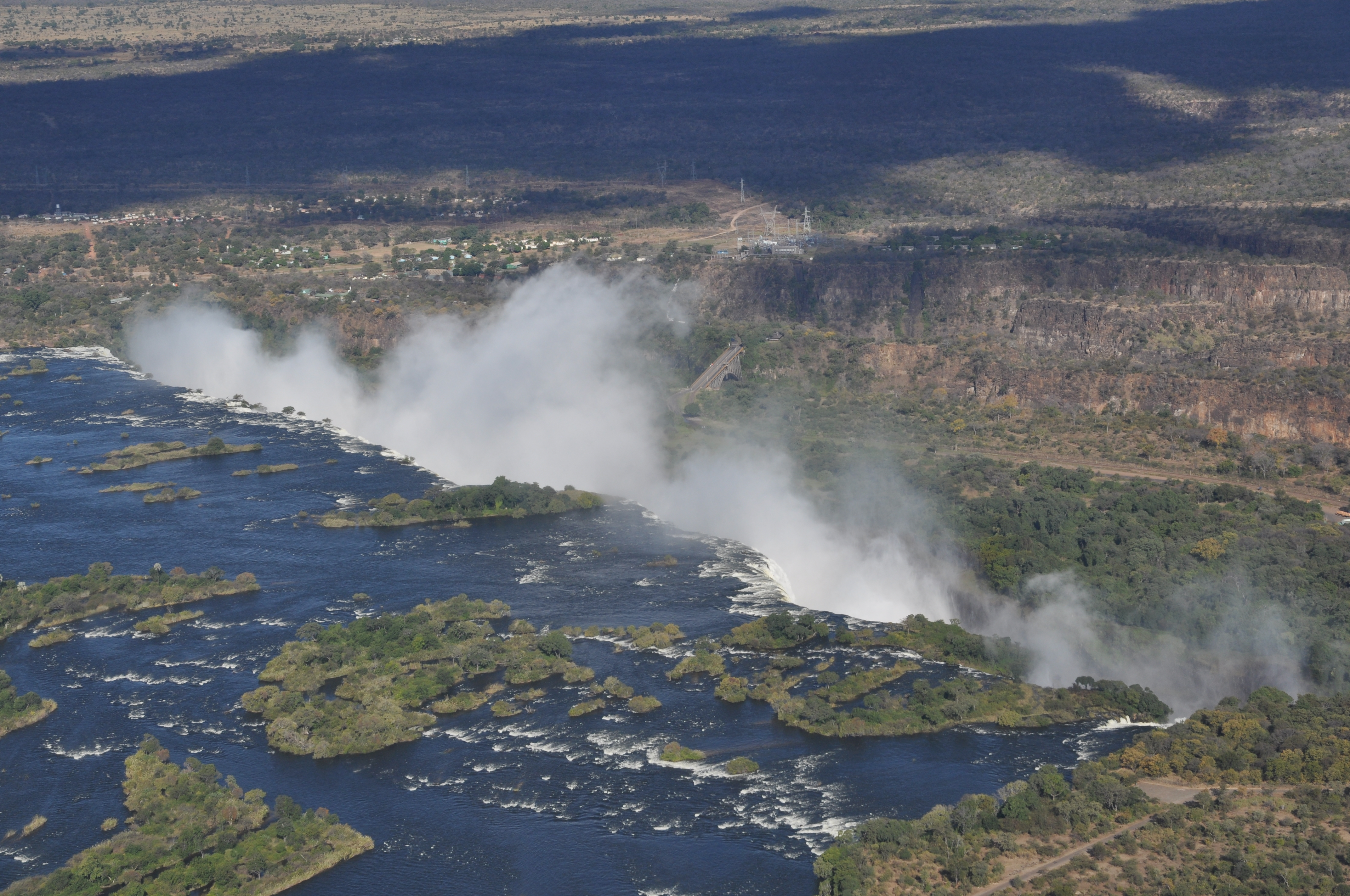 Picture of the Victoria Falls (view from helicopter), showing their full extent (1.7 kilometer). Zimbabwe is on the the right-hand side of the picture, and Zambia on the left. From right to left: Devil's Falls, Cataract Island (partly flooded), Main Falls, the long and narrow Livingstone Island, Horseshoe Falls and Rainbow Falls, Armchair Falls, and last Eastern Cataract on the Zambian side. One can also see the bridge between the two countries in the background.